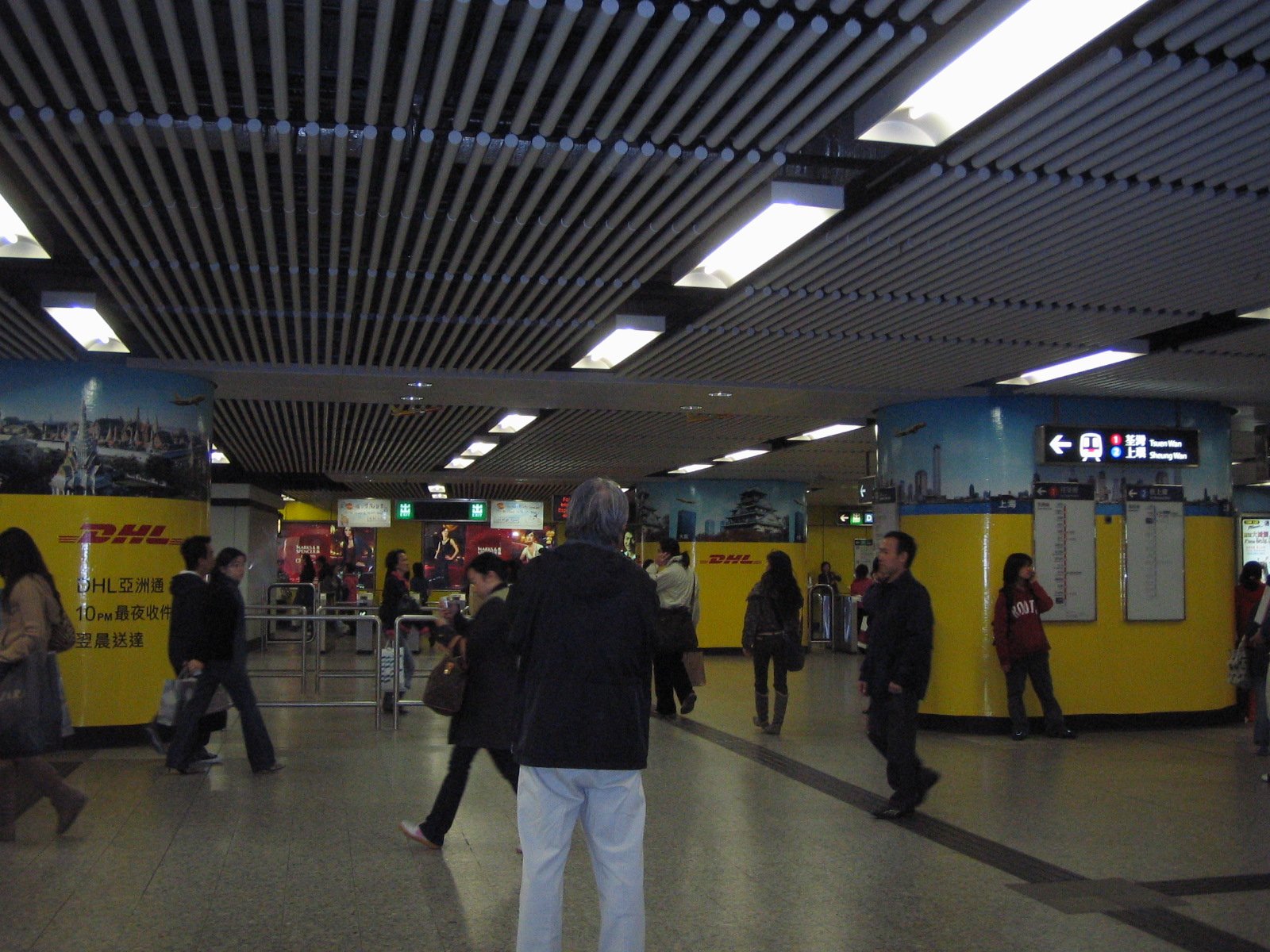 Concourse of Admiralty MTR Station.